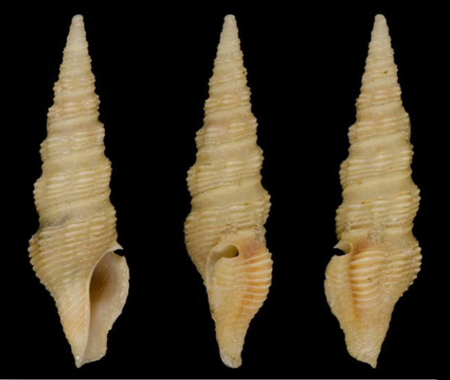 Compsodrillia acestra (Dall, 1889); family Pseudomelatomidae; holotype at the Smithsonian Institution